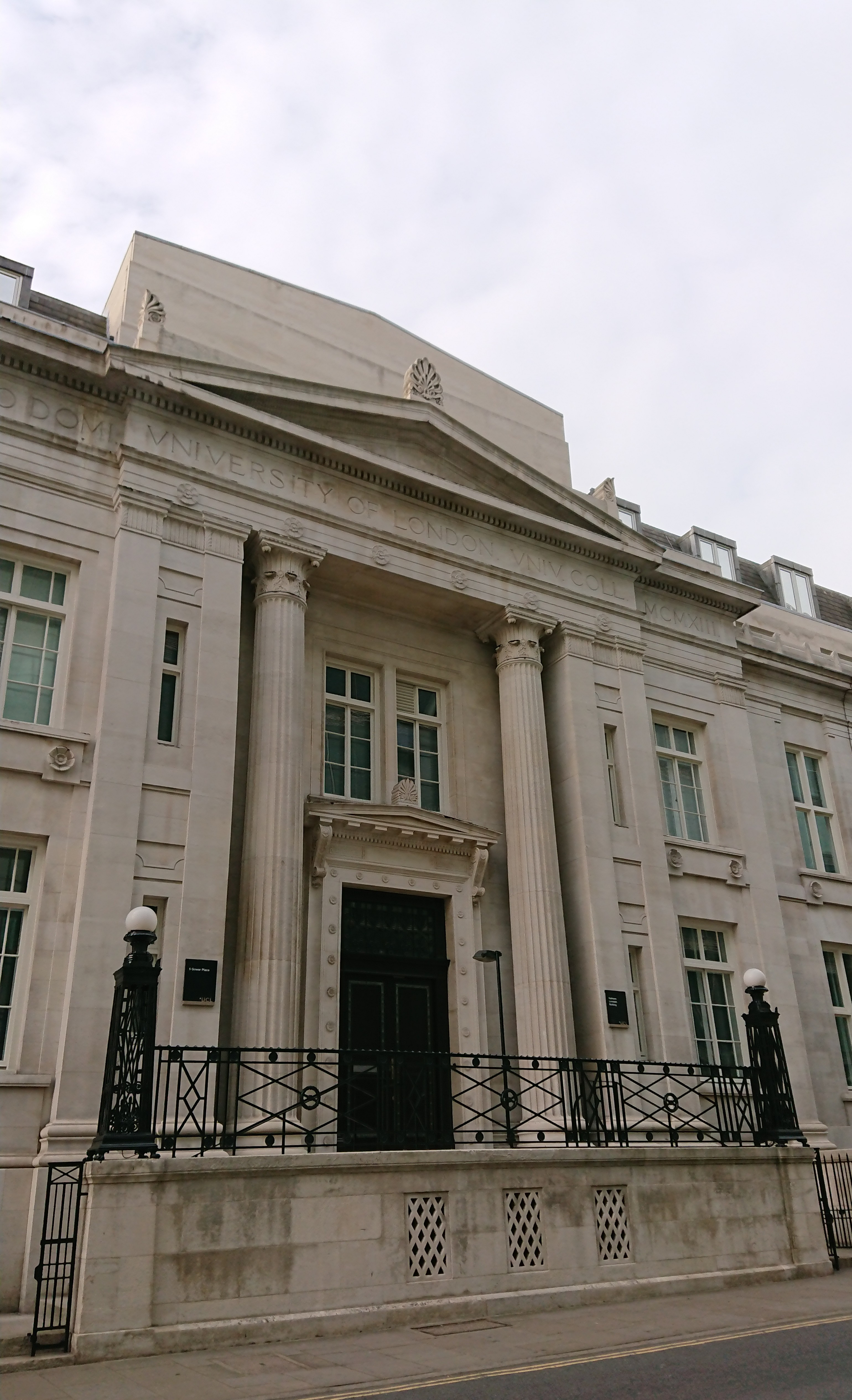 the Kathleen Lonsdale Building, 5 Gower Place, part of the University College London campus.